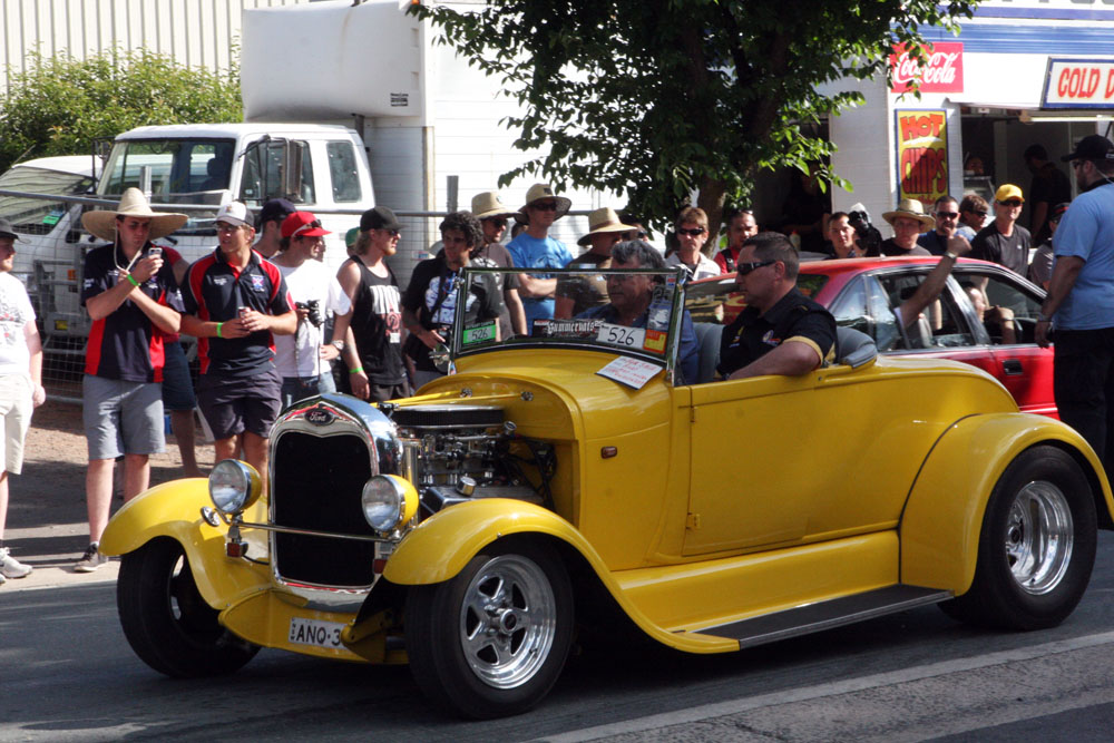 25th annual Summernats in Canberra.